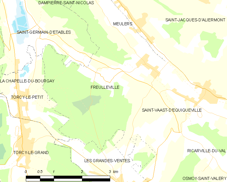 Map of French municipality Freulleville